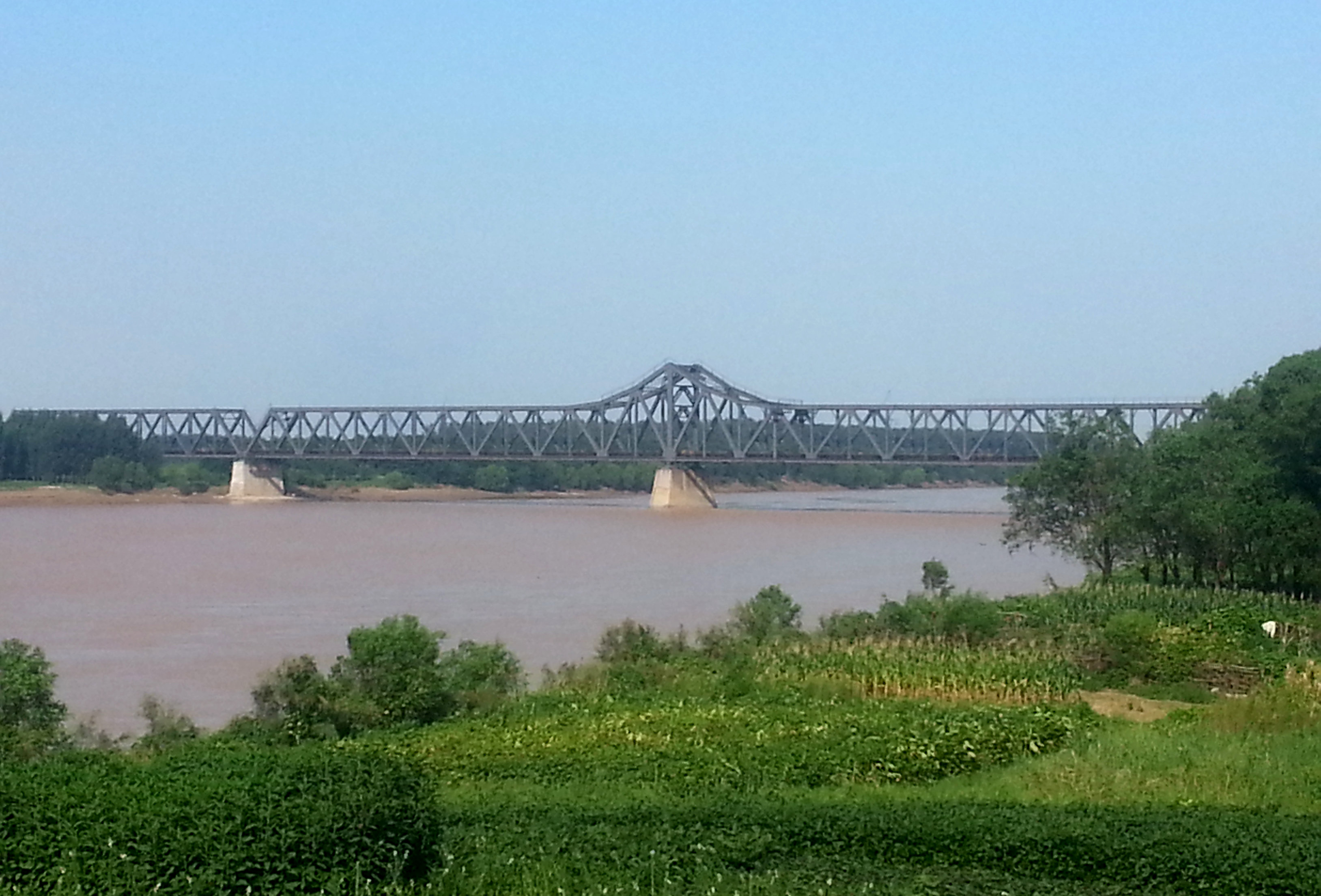 Photograph of the Luokou Yellow River railway bridge in Jinan, Shandong, China seen from the southern bank of the Yellow River.